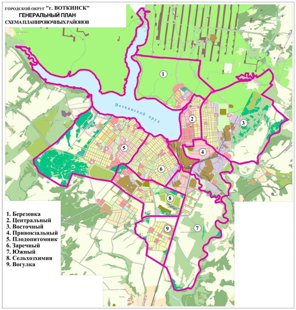 General plan of Votkinsk city. Map of the districts. Удмурт: Вотка карлэн генеральной планэз. Кар ёросъёслэн схемазы.